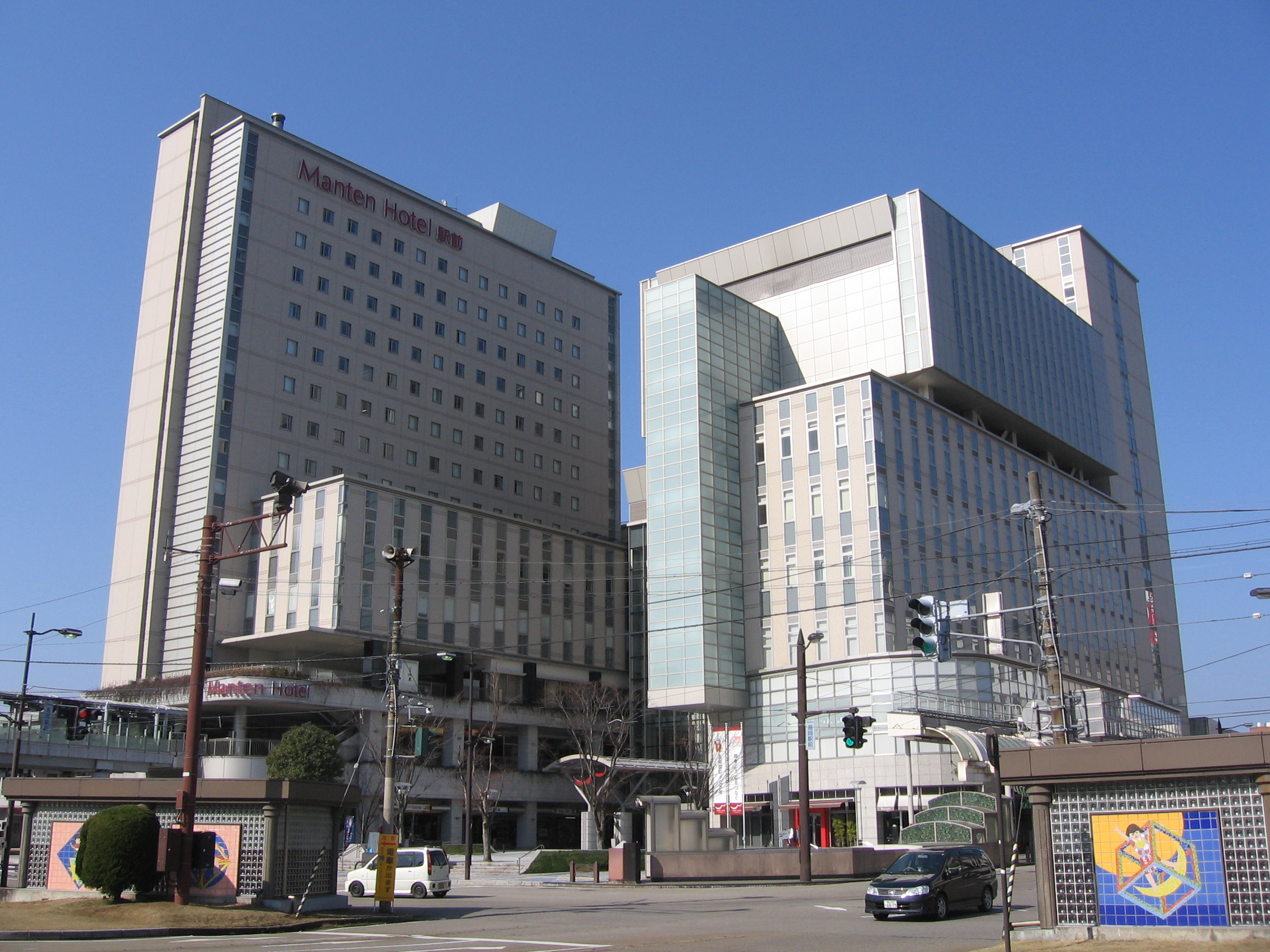 Wing Wing Takaoka